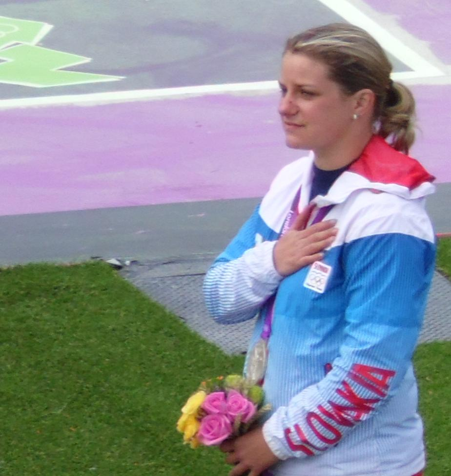 Slovak sport shooter Zuzana Štefečeková during the medal ceremony at the 2012 Summer Olympics